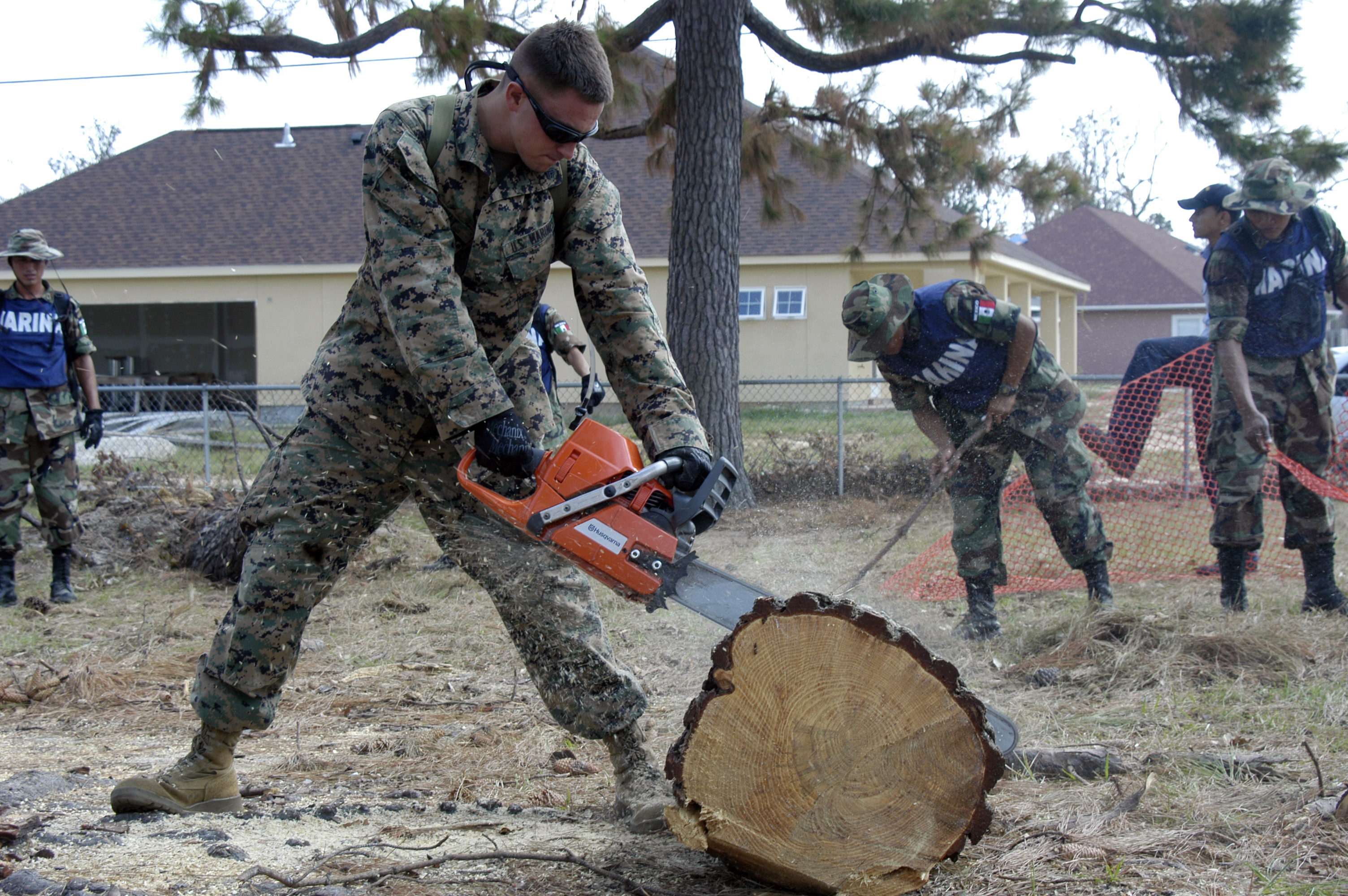 D’Iberville, Miss. (Sept. 9, 2005) – A U.S. Marine assigned to 11th Marine Expeditionary Unit (MEU-11) stationed at Camp Pendleton, Calif., cuts a fallen tree as part of the cleaning efforts st D’Iberville Elementary School. The school will be used as shelter, providing food and medicine for the evacuees. The Navy and Marines’ involvement in the humanitarian assistance operations is being led by the Federal Emergency Management Agency (FEMA), in conjunction with the Department of Defense. U.S. Navy photo by Photographer’s Mate Airman Pedro A. Rodriguez (RELEASED)